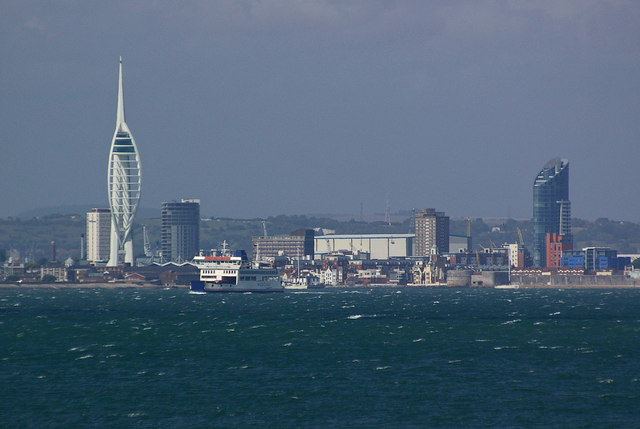 Portsmouth as seen from Ryde On the left is the 165m high Spinnaker Tower, completed in 2005, and on the right is the 95m high 1 Gunwharf Quays, completed in 2008. A Wightlink Ferry on a Portsmouth - Fishbourne crossing can also be seen.